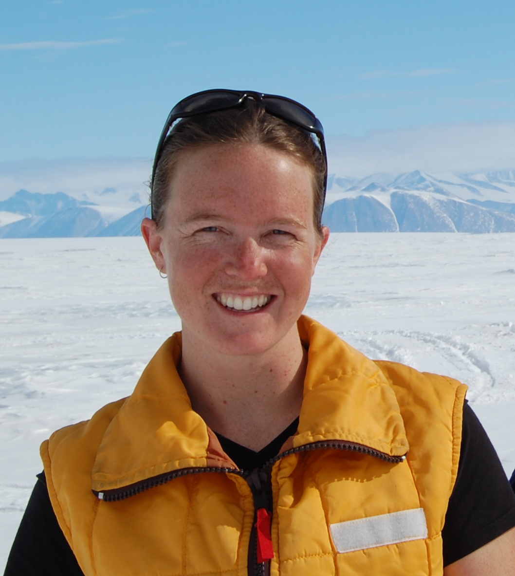 Natalie Robinson on the sea ice of McMurdo Sound in 2007 during the NIWA K131 science event.